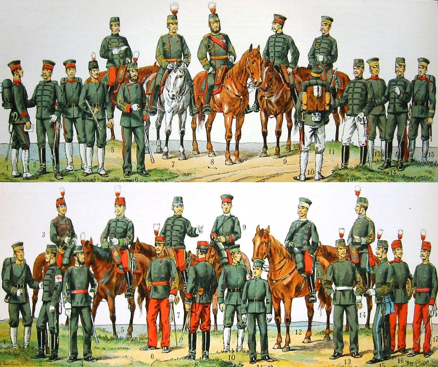 The Imperial Japanese Army in 1900. From French encyclopedia "Nouveau Larousse Illustre", 1902 edition. Hình:JapaneseArmy1900.jpg commons: Image:JapaneseArmy1900.jpg